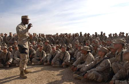 John L. Estrada, Sergeant Major of the Marine Corps - SGTMAJ (SgtMajMC)